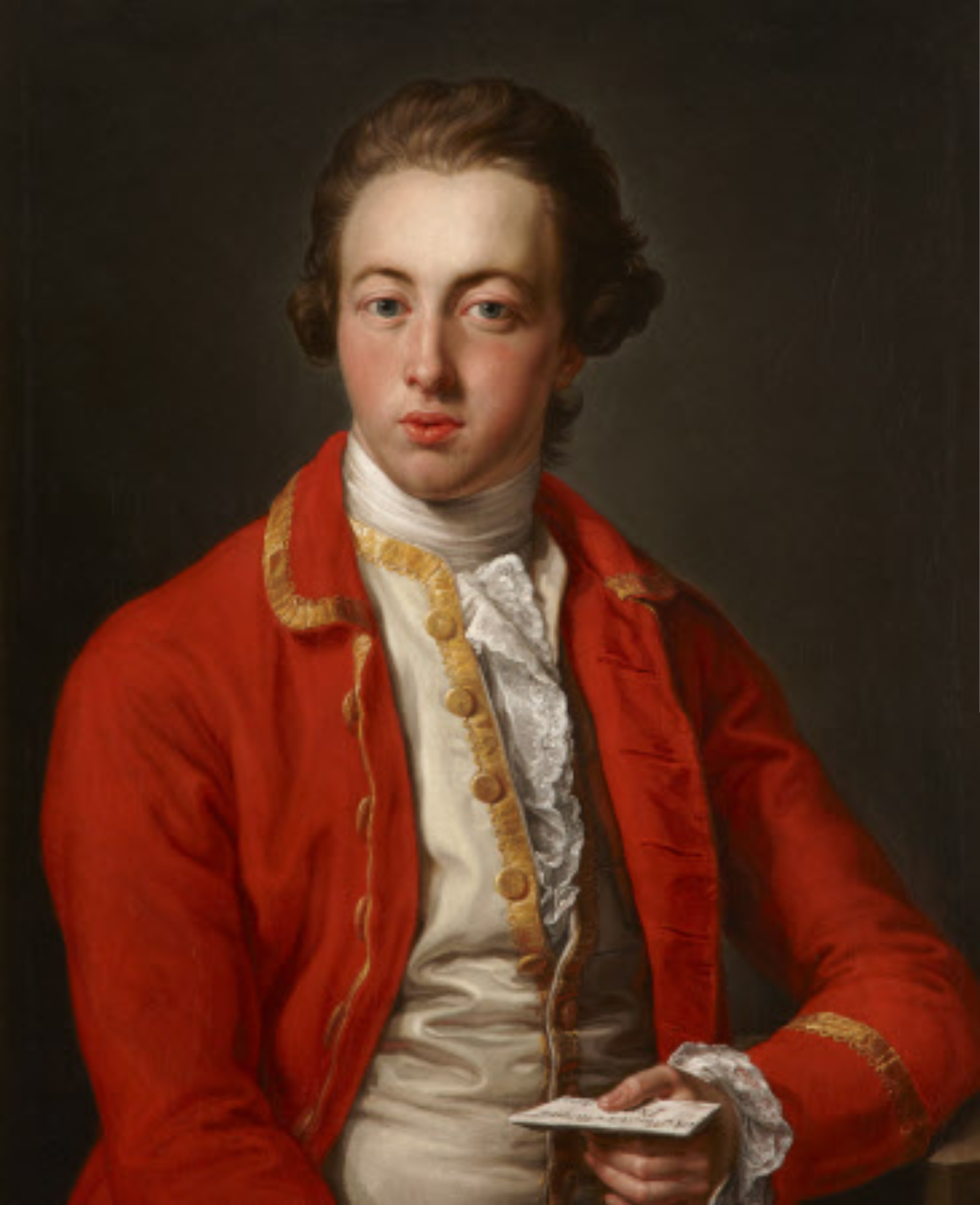 A portrait of Sir John Parnell, 2nd Baronet (1744 - 1801) by Pompeo Girolamo Batoni (1708 - 1787). Painting currently held in Castle Ward, County Down.